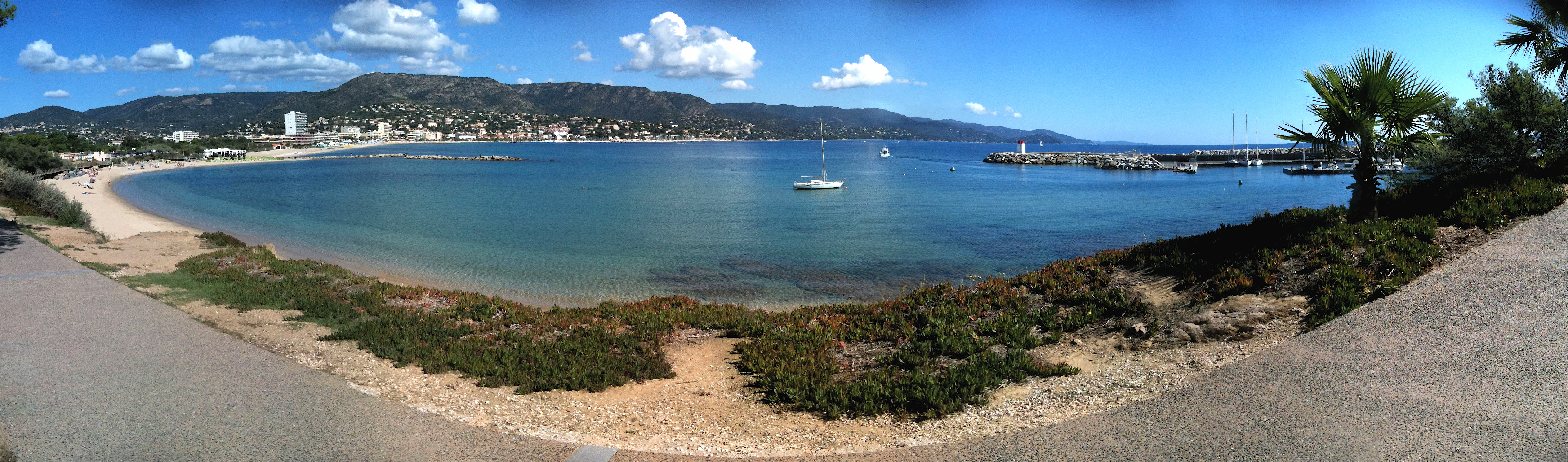 Le Lavandou (Var), France